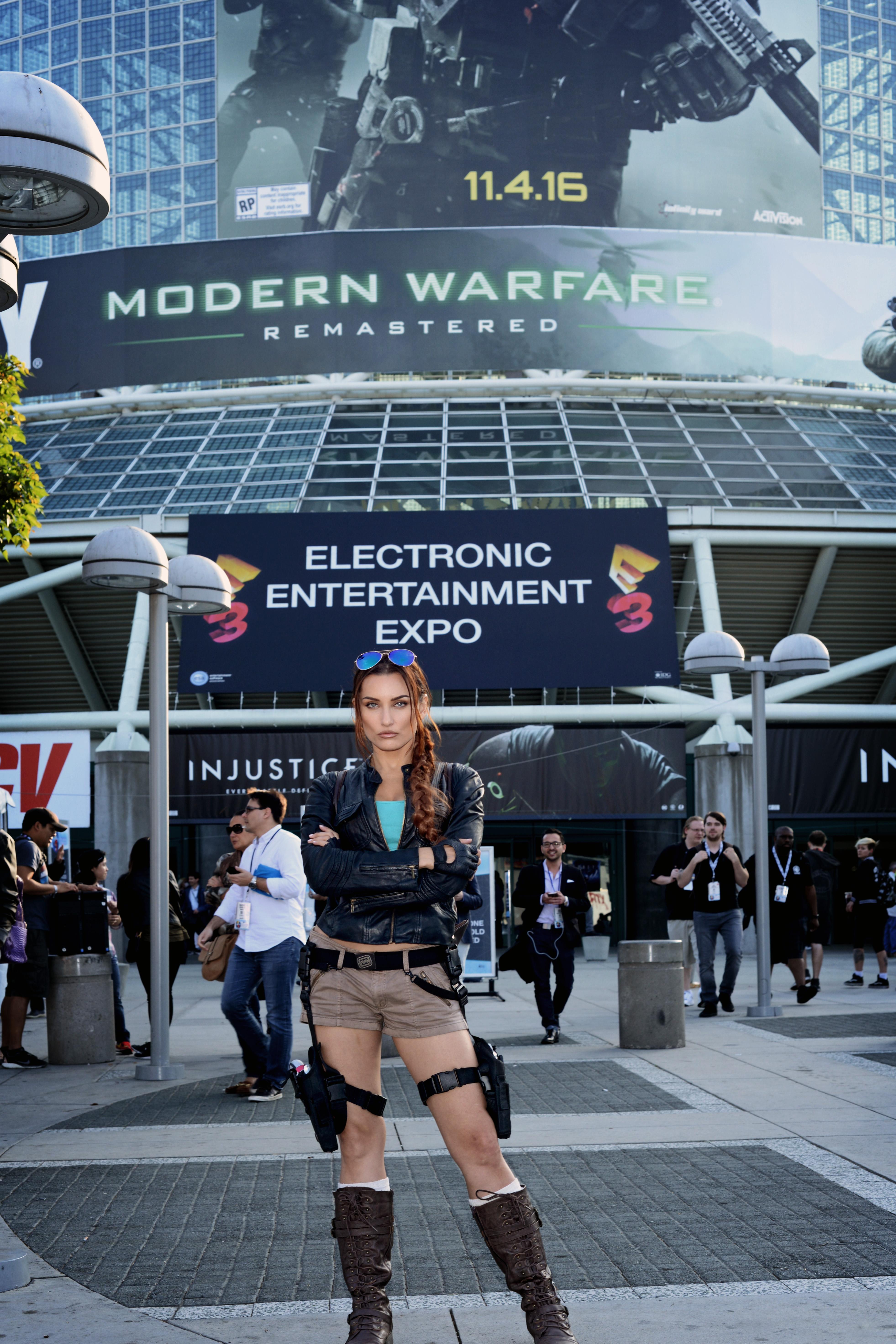 E3 Expo 2016 at the Los Angeles Convention Center in Los Angeles on June 14, 2016 - Photo by Glenn Francis of